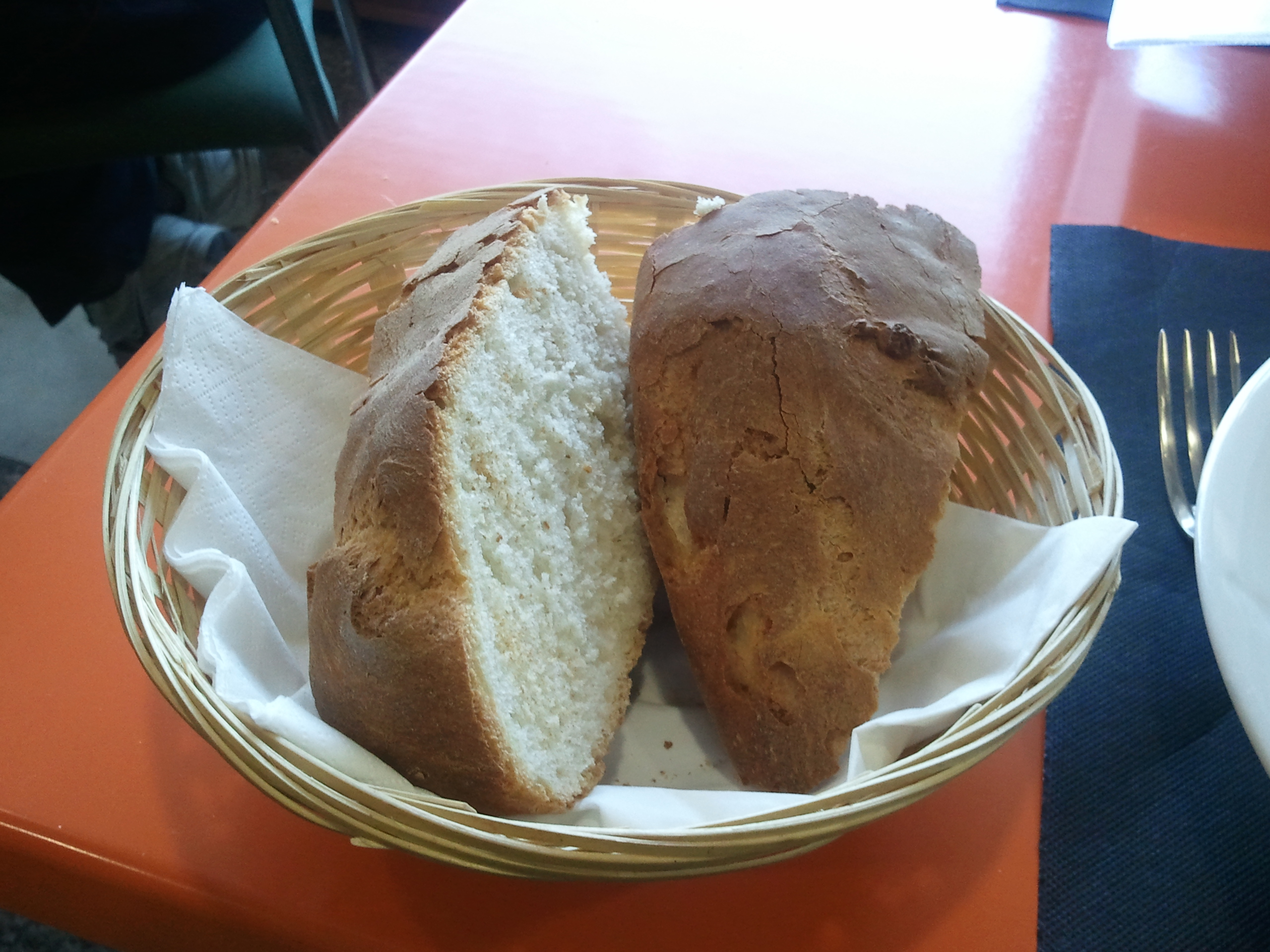 Bread castilian, Amblés Valley, Ávila province, Spain.